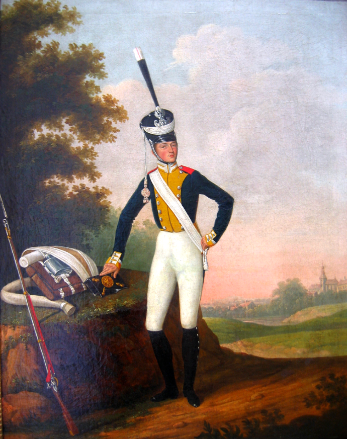 Kongress Poland infantry sergeant